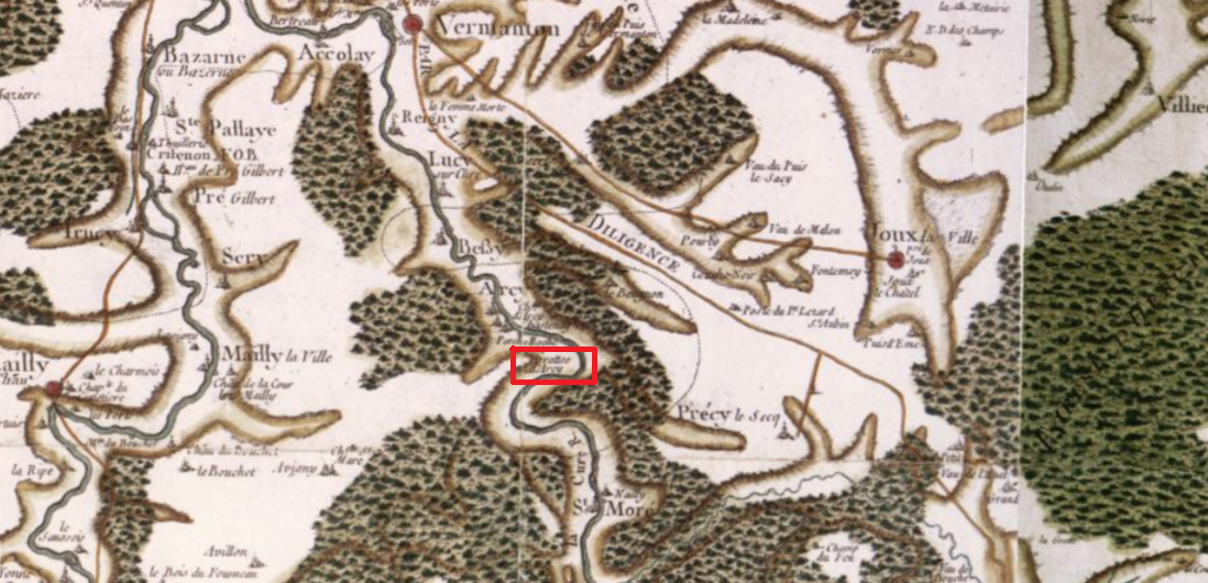 Cassini map (18th century - published around 1766-1768), detail. Centered on the prehistoric site of Arcy-sur-Cure caves (red rectangle), about 30 km south of Auxerre, in the present Yonne departement, in Burgundy, France. The site borders the Cure river that flows south-north, cutting through the middle of the map.